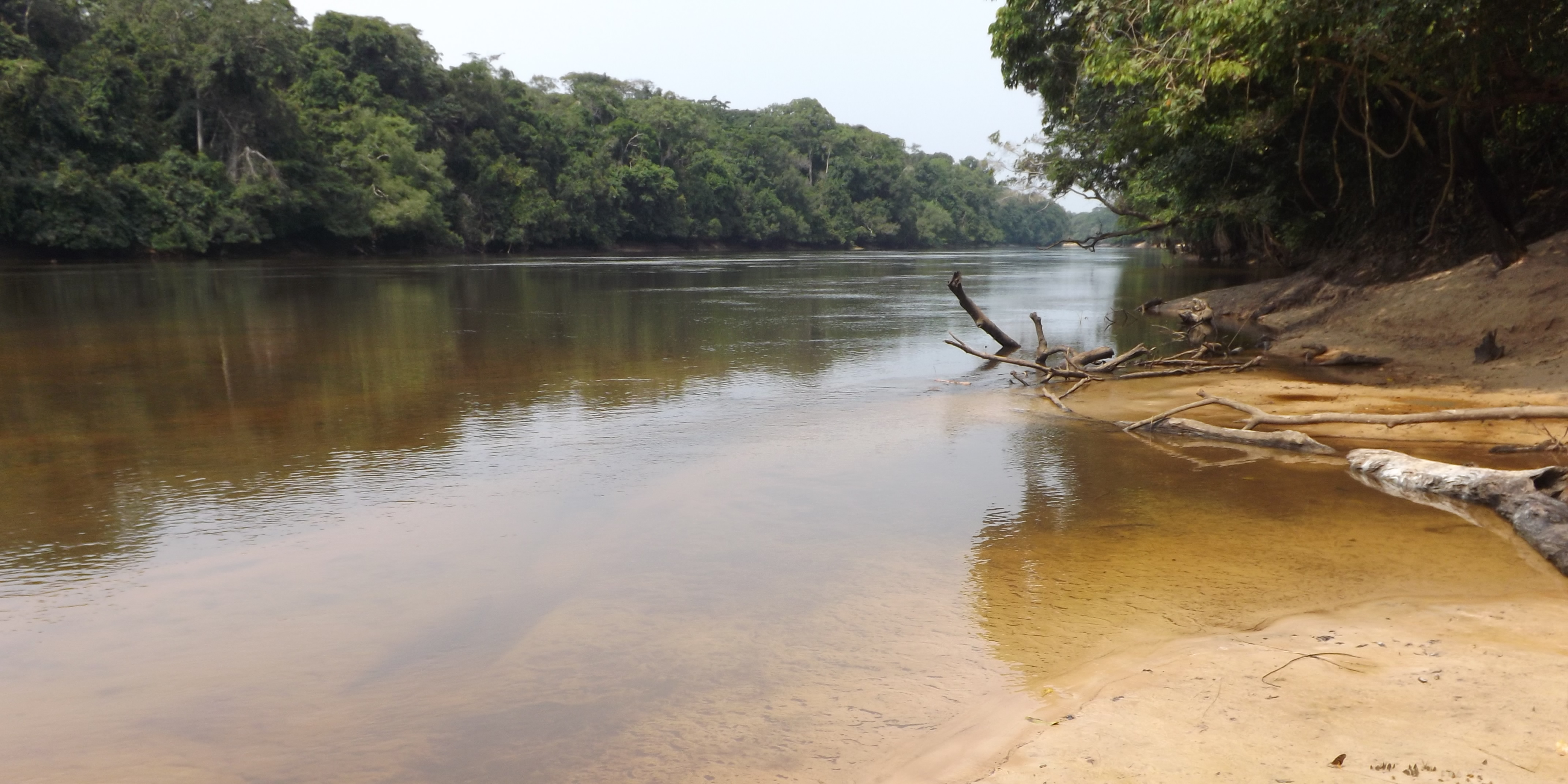 The bank of the Lomami River at Katopa Camp, Democratic Republic of the Congo, with swallowtails and other butterflies on the sand.